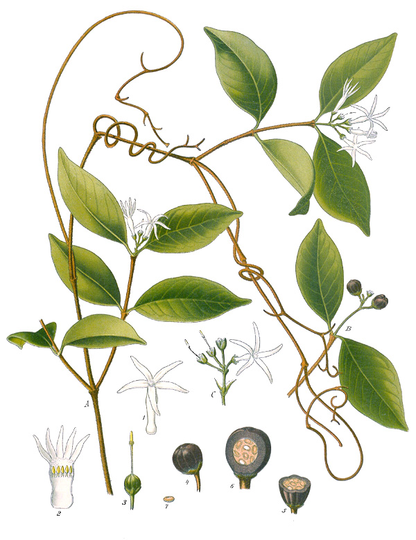 Illustration of LANDOLPHIA Watsonii H. B. K. 14 (Landolphia watsoniana Vogtherr, )